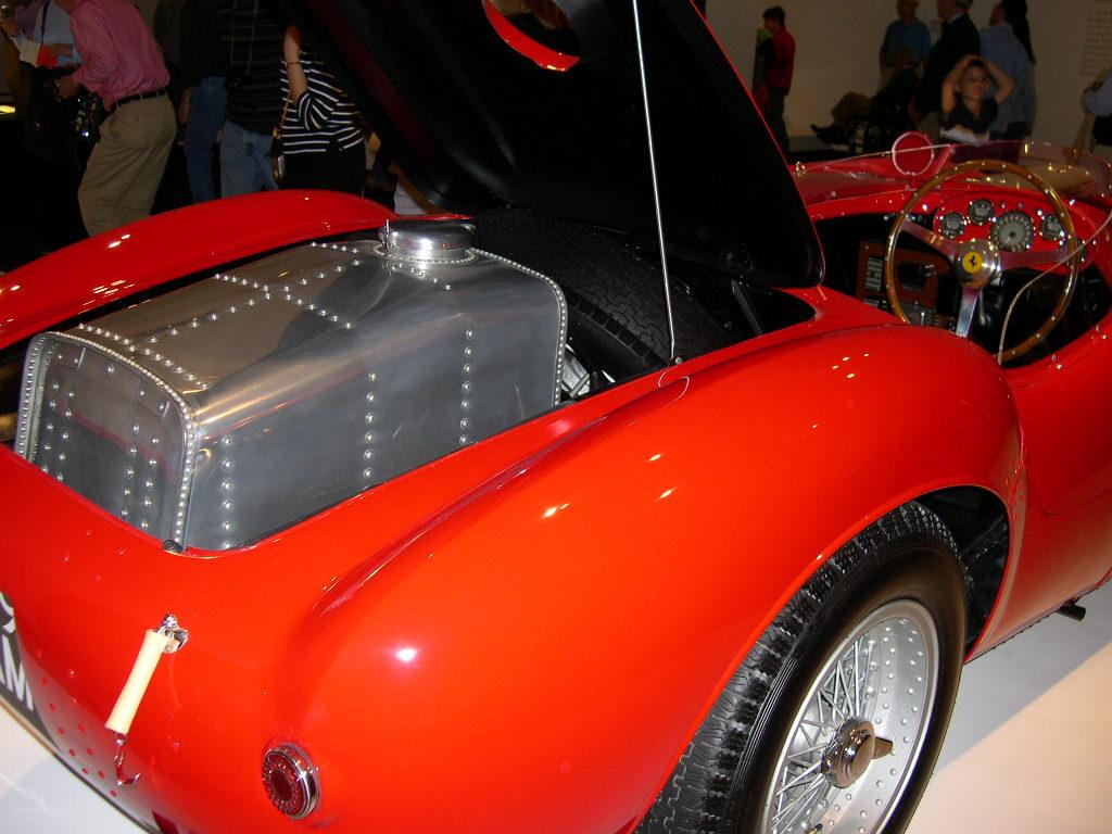 1954 Ferrari 375 Plus From the Ralph Lauren collection on display at the Boston Museum of Fine Arts. Photo taken in 2005. Source: Photo by User:Sfoskett